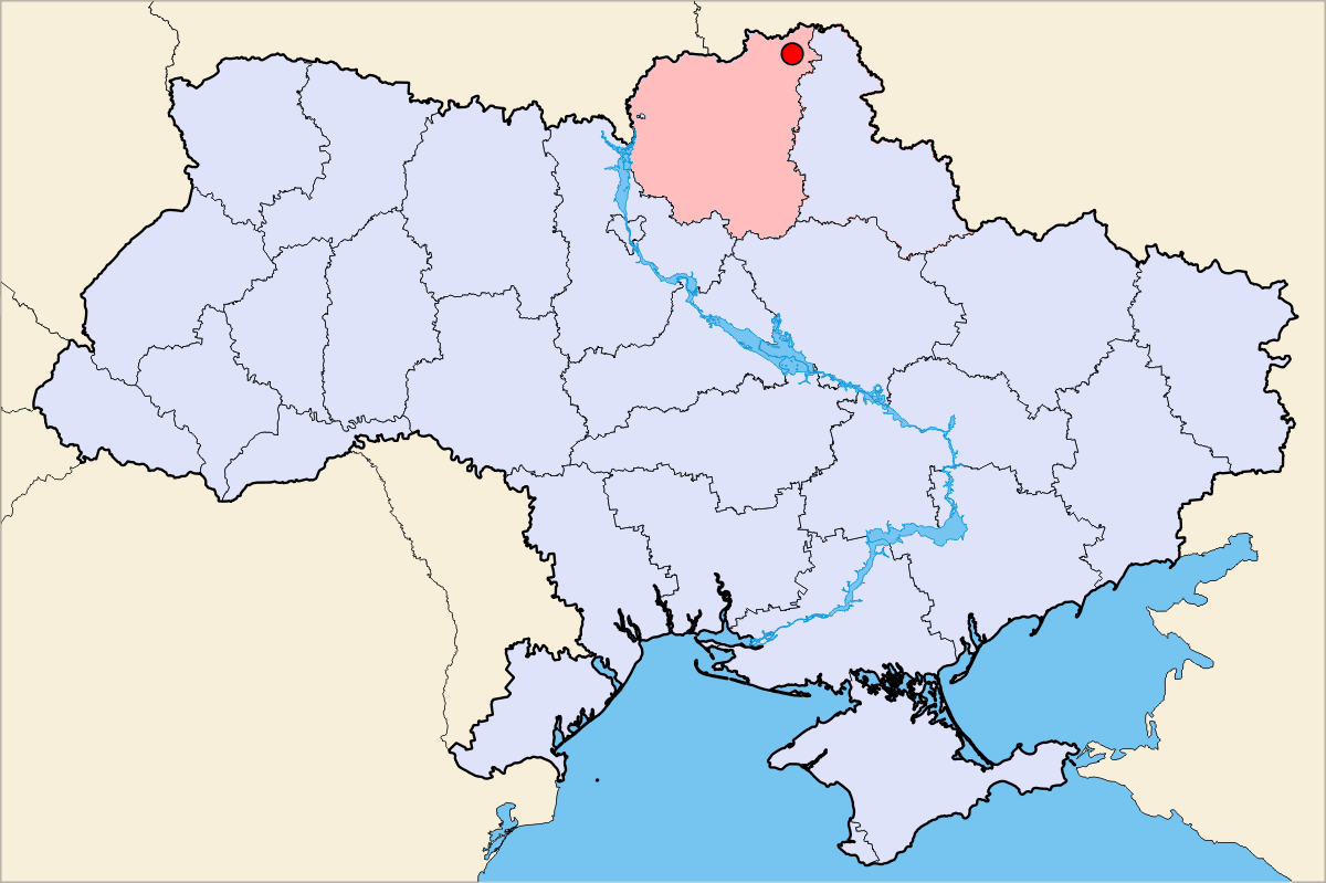 Description = Novhorod-Siversky geographical position Source = own work, Skluesener Date = 22.01.2006 Author = User:DDima Credits = Colours chosen according to a map of steschke